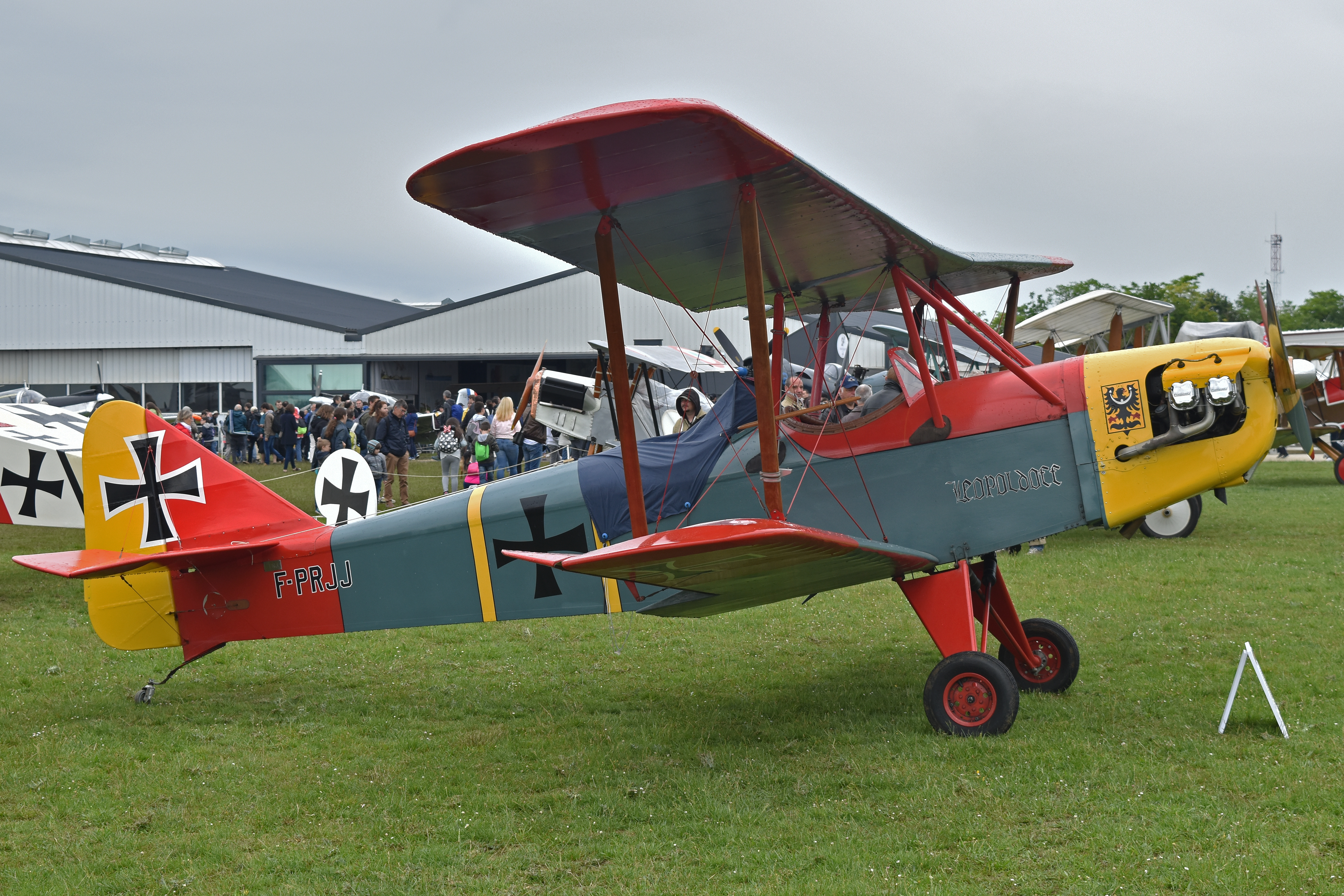 c/n LF-01-93 Built 1993, according to the Direction Générale de l'aviation Civile (DGAC). However she has also been reported as originally being built in 1956 as F-BHGU, later becoming F-WVZR and finally joining the Salis collection in 1993 as F-PRJJ. As a type, the Colibri first flew in 1933 with the L.55 being a postwar variant with a Continental C90 engine. F-PRJJ is currently painted in a spurious WW1 German colour scheme. 2019 Fête Aérienne Le Temps Des helices (Aerial Festival – The Time of the Propellers). Aérodrome de Cerny-La-Ferté-Alais, Cerny, France 9th June 2019